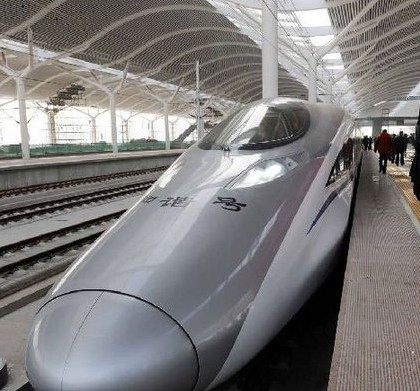 Xuzhou East Railway Station